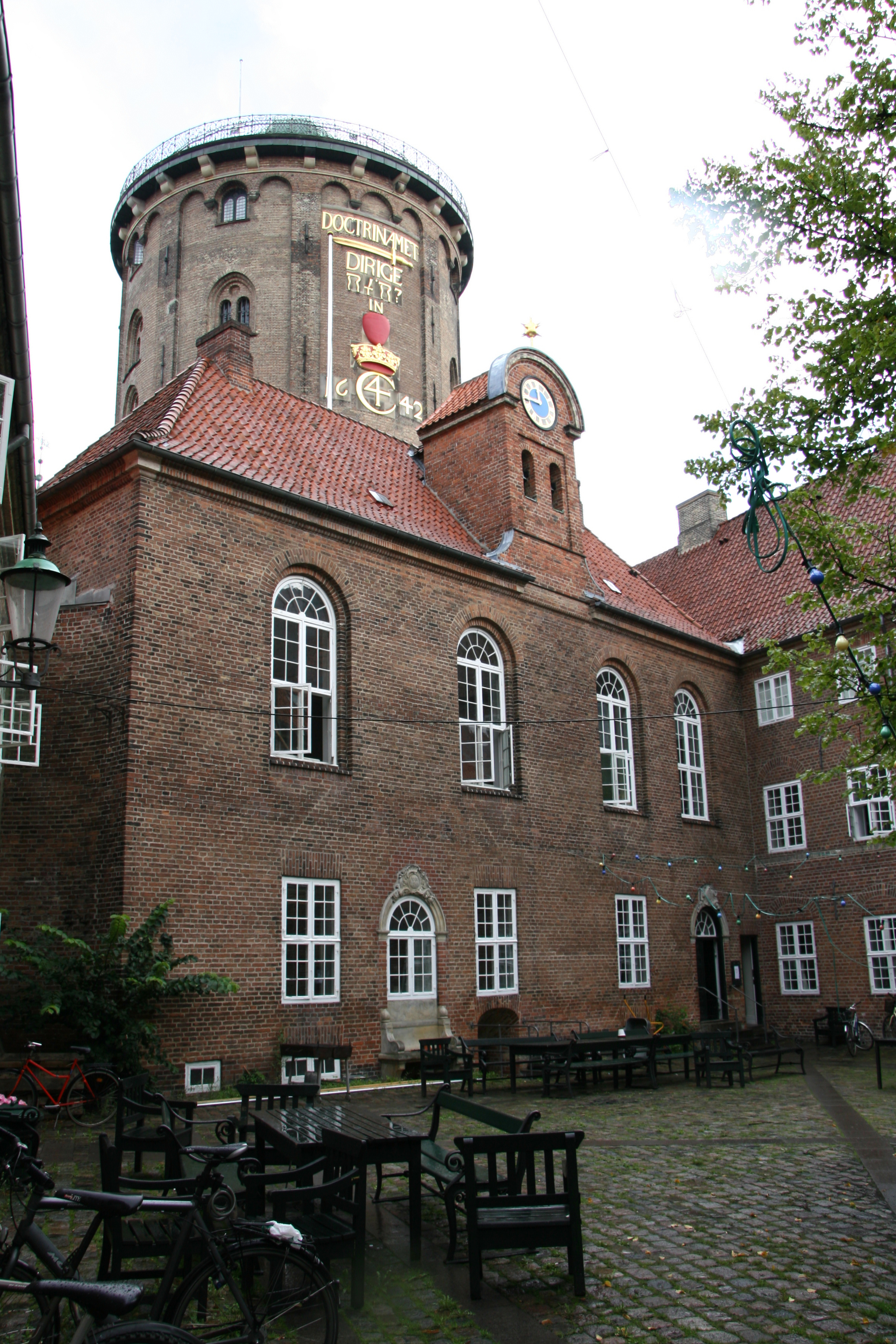 The wing of "Regensen" (a dormitory building in Copenhagen, Denmark) that served as church for the residents until 1656.